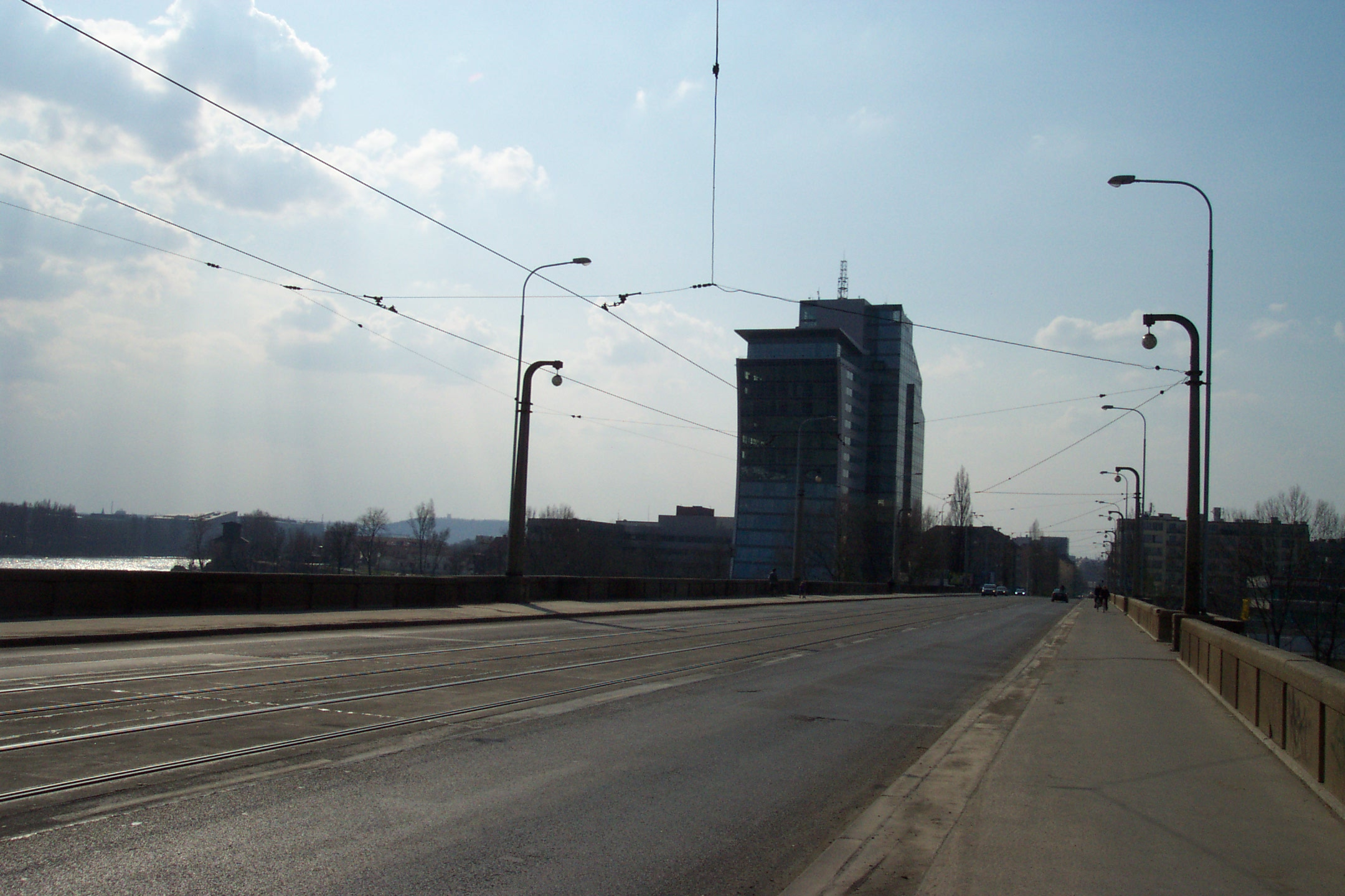 Libeňský most